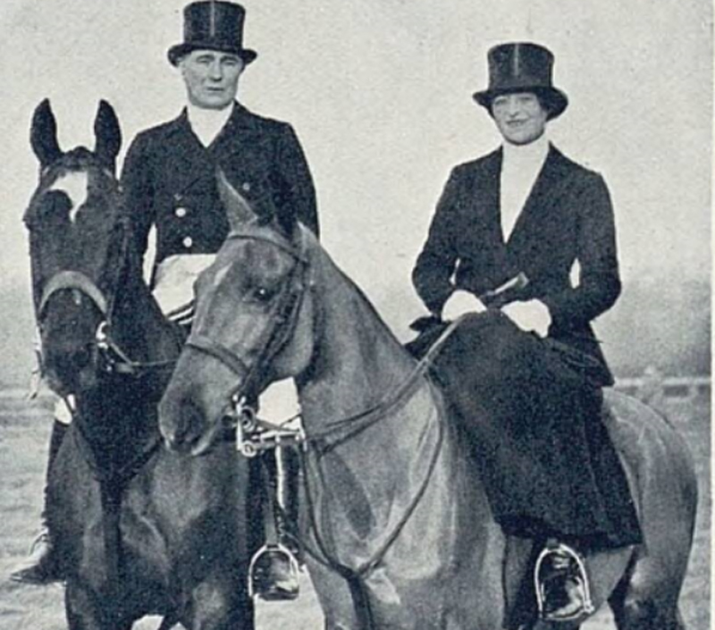 Mr and Mrs Geoffrey Thomas Unwin, residents of "The Bury", Hemel Hempstead